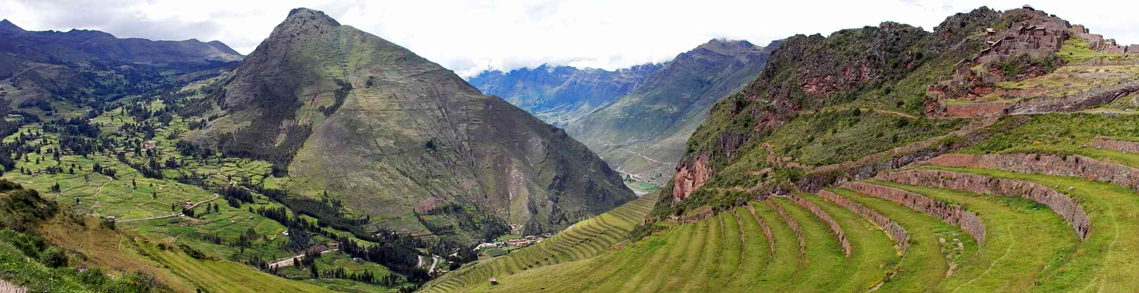 PERU | Heiliges Tal | Pisac | Sacred Valley Panoramic view from the top of the Terraces of Pisac. Panorama im Heiligen Tal auf die Ruinen und Terrassen von Pisac. You're welcome to use this picture free of charge, as long as you follow the license terms. As a matter of courtesy a link (dofollow links are welcome!) to is much appreciated. Thank you! ————————–—–—–—–—–—–—–—–—–—–—–—–—–—–—– Du kannst dieses Bild gemäß der Lizenzbestimmungen unentgeltlich nutzen. Über eine Verlinkung (dofollow am liebsten) auf freuen wir uns. Danke!